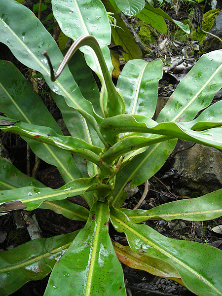 Nepenthes northiana